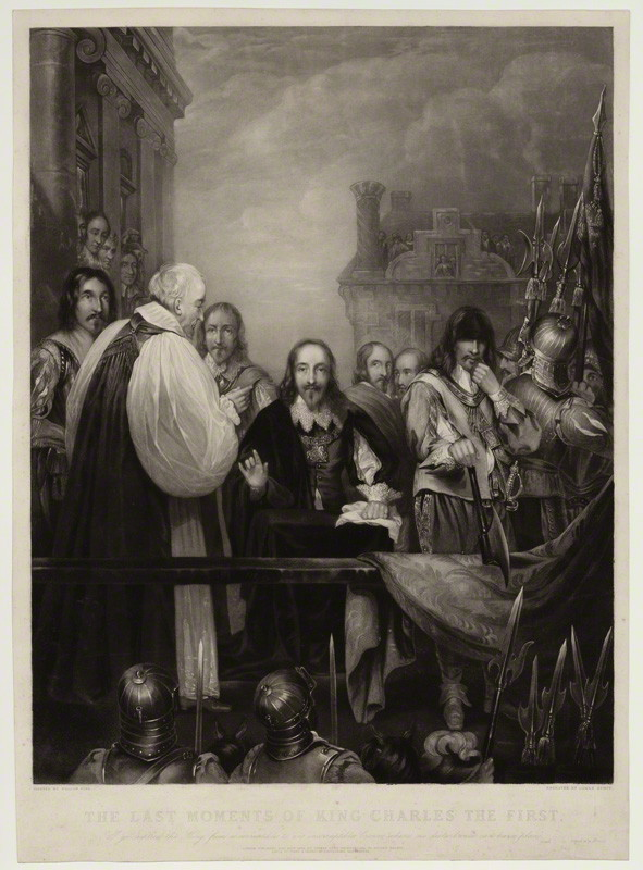 History painting, The last moments of King Charles the First.